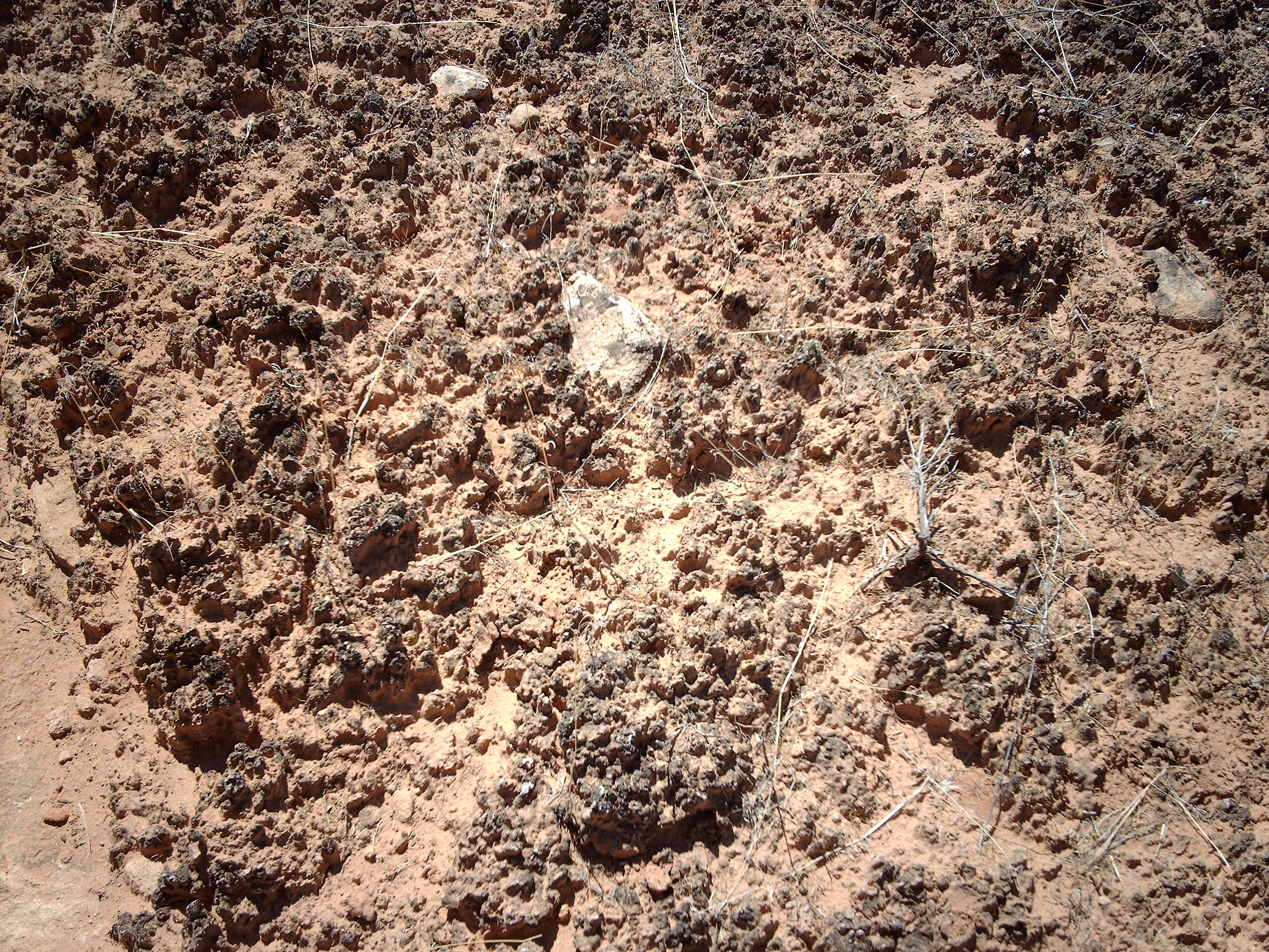 Cryptobiotic soil. Taken by me in Hovenweep National Monument.